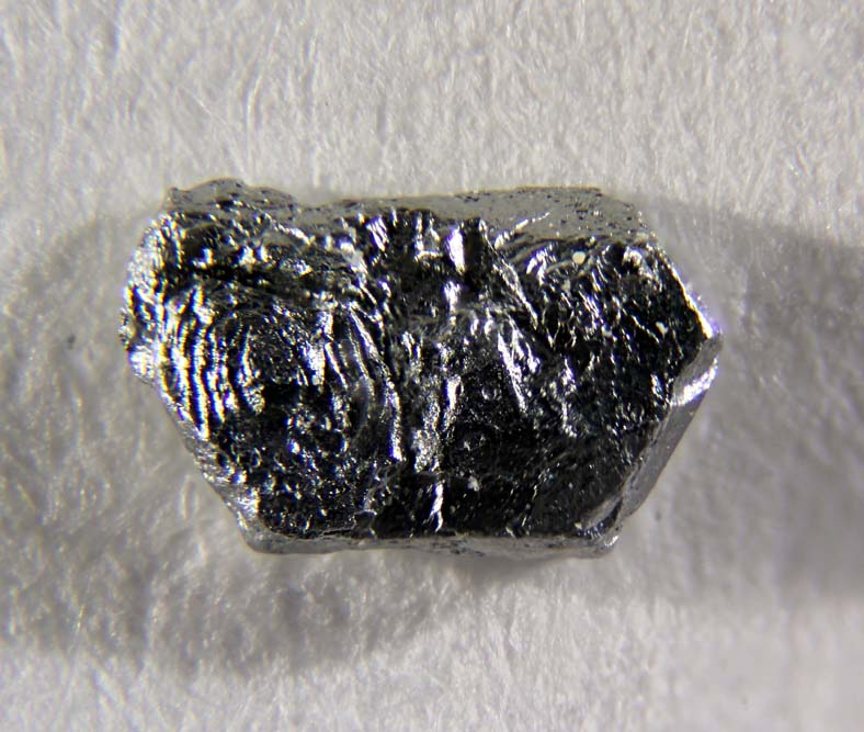 Nice sharp perfect crystal of native osmium. Osmium minerals are extremely rare in Nature. From more than 5000 mineral species known, only 8 are Osmium minerals (data from MINDAT) so it is a real rarity! Analyzed specimen. Native osmium crystals are extremely rare and very rarely seen on the mineral market. From: Neiva River, Ekaterinburgskaya, Urals Region, Russian Federation.